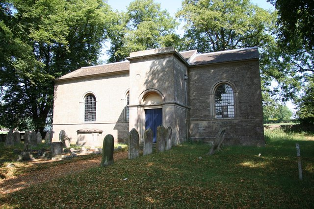 All Saints' parish church, Pickworth, Rutland, seen from the southeast. The south porch was designed to have a tower.